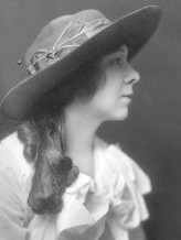 Headshot of actress Nell Franzen, ca. 1912